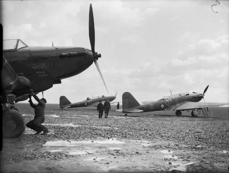 Royal Air Force- France, 1939-1940. Fairey Battles of No. 226 Squadron RAF undergoing servicing on the flight line at Reims-Champagne. The aircraft on the right, K9183 'MQ-R', was shot down by ground aircraft fire while attacking enemy columns south-west of Luxembourg on 10 May 1940. Its pilot died of his wounds, but the other two crew members survived.